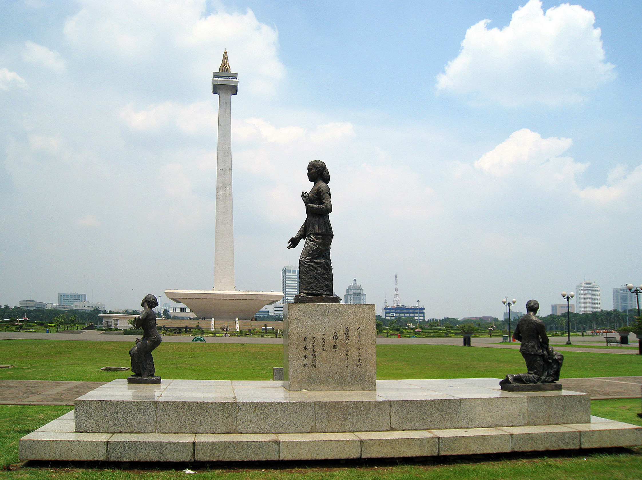 Kartini and Indonesian women emancipation statue, donated by Japanese people for Indonesian people. Located at Eastern Medan Merdeka Park, Central Jakarta.